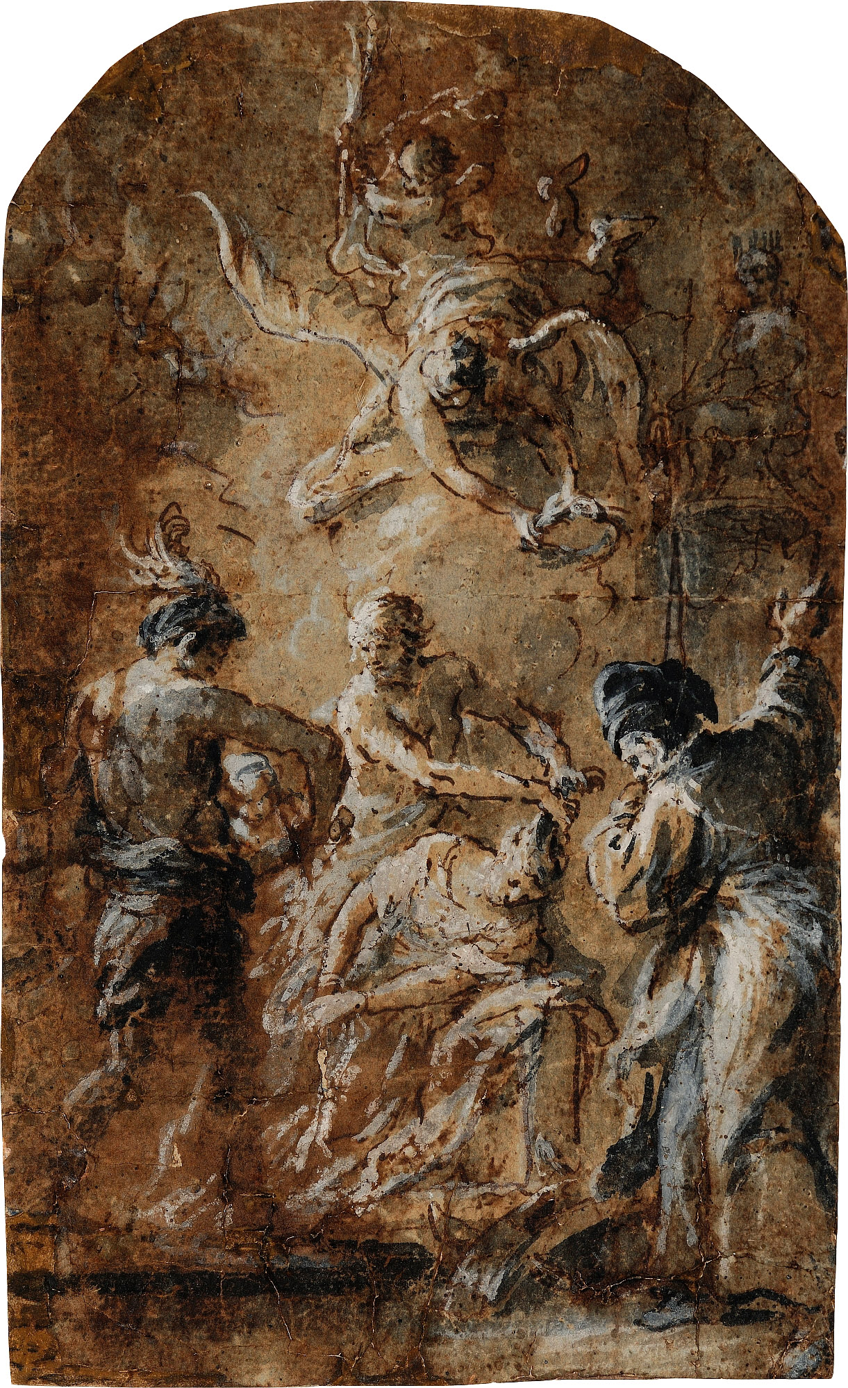 preparatory drawing for a painting for Brno Cathedral, later not executed in this way.